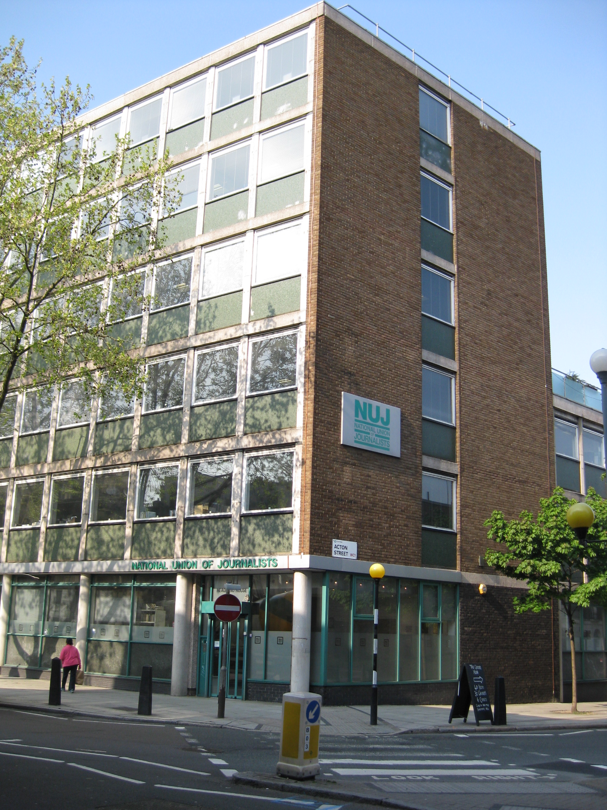 National Union of Journalists headquarters, Headland House, 308-312 Gray's Inn Road, London WC1X 8DP.